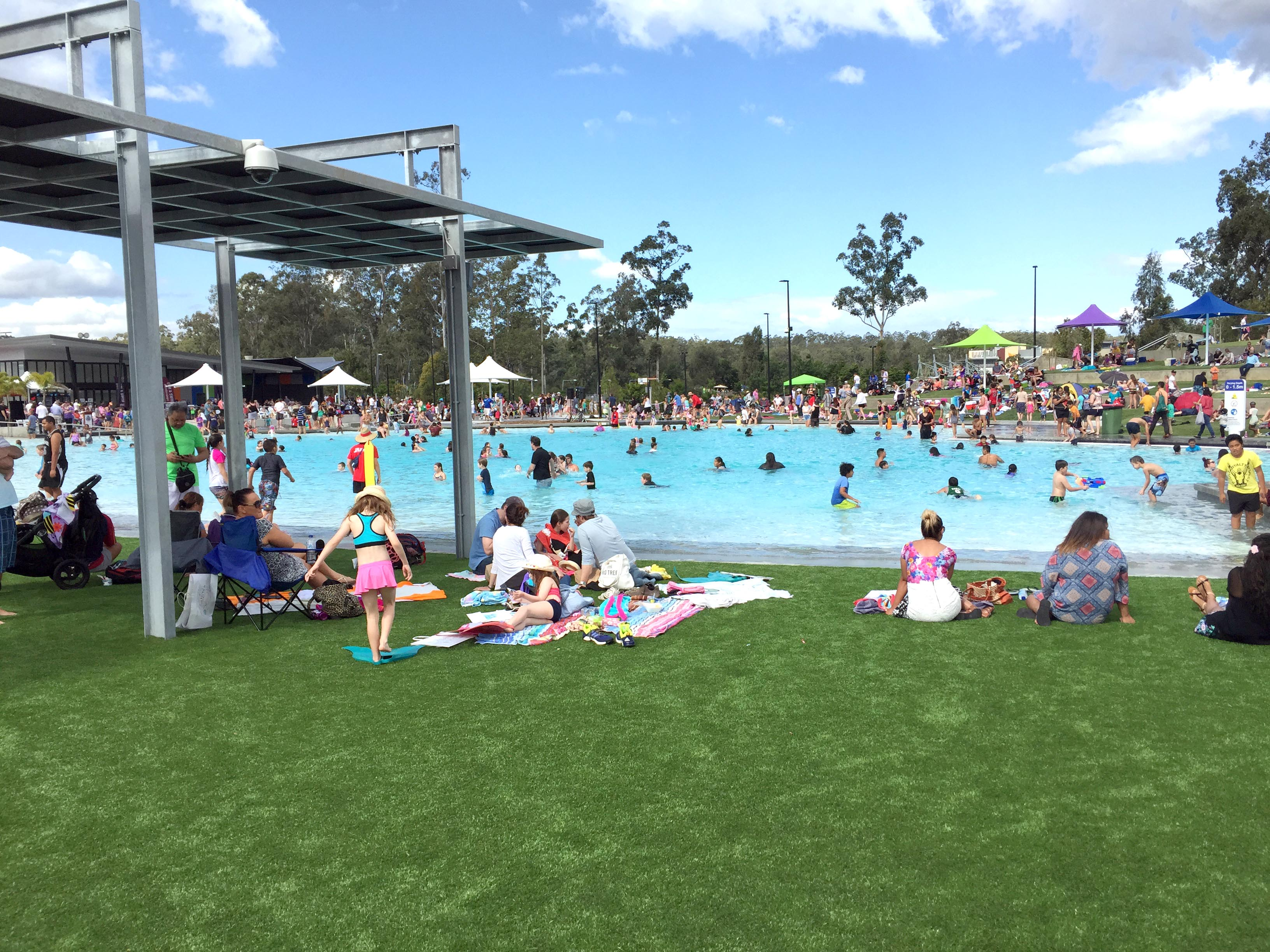 The Robelle Domain Parkland features the Orion Lagoon, an artificial lagoon in the heart of Springfield Central. The lagoon varies in depth, allowing recreation for all ages.